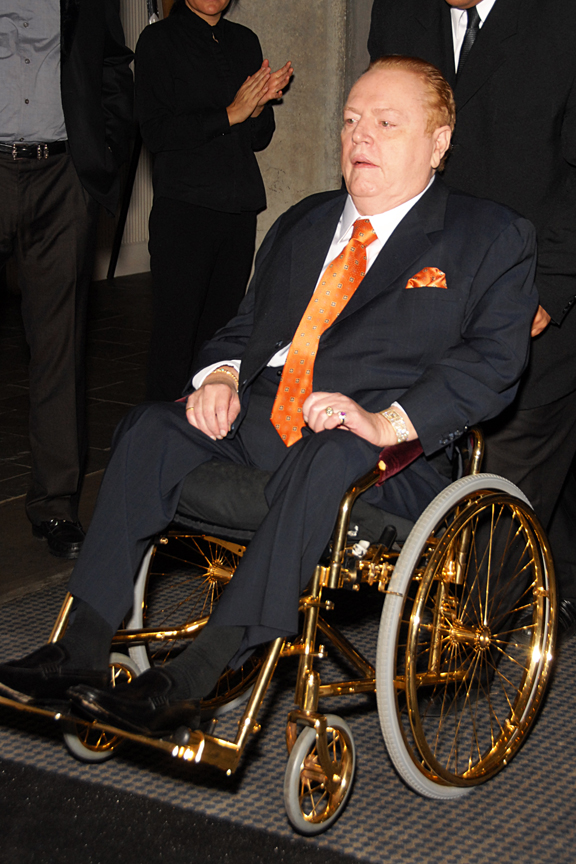 Larry Flynt's Famous $80,000 Gold-Plated Wheelchair - Nov. 14, 2009 - Photo by Glenn Francis of